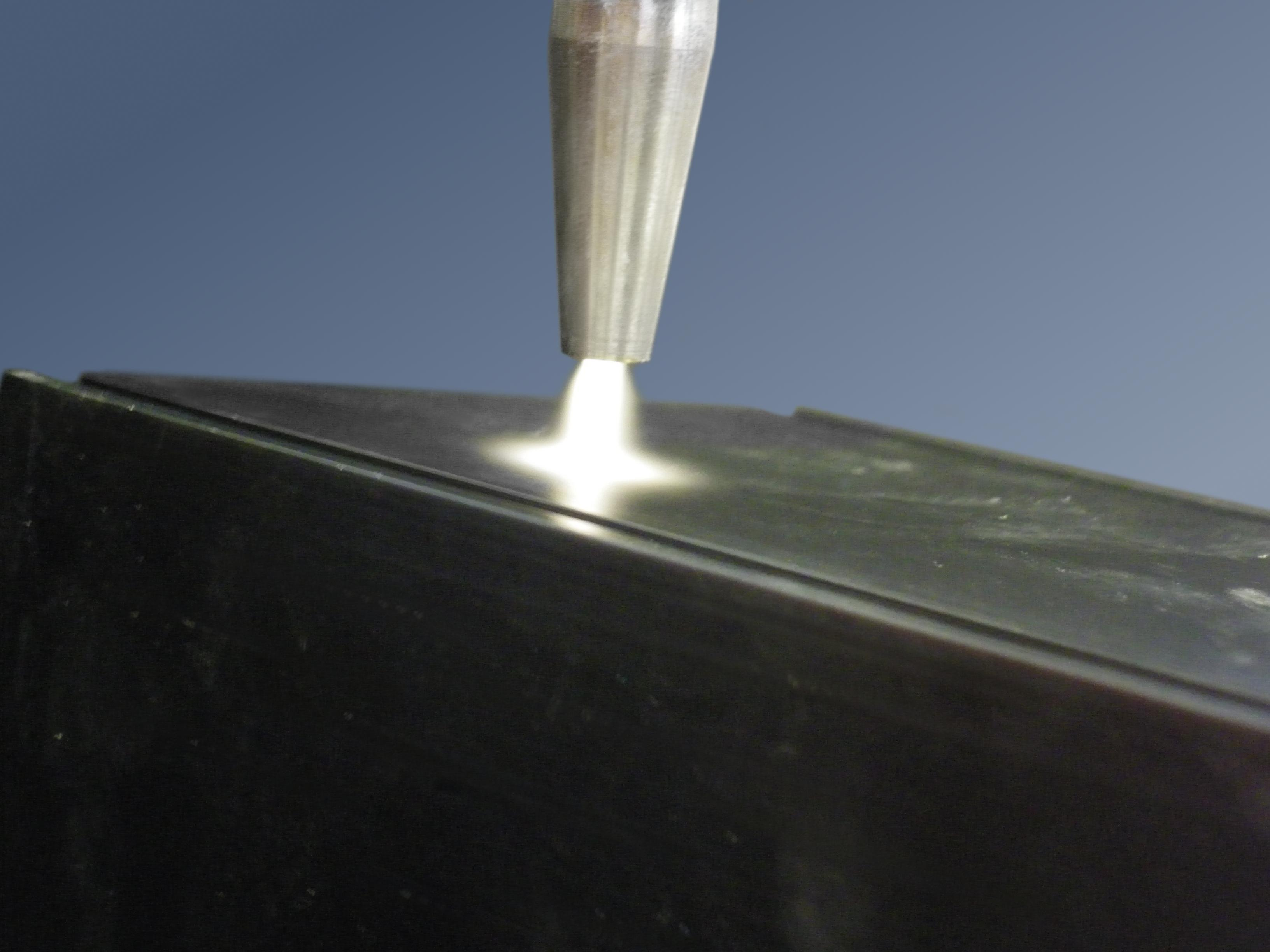 Atmospheric-pressure plasma jet.